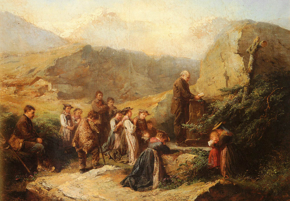 Rafael Ritz painting Prayer in the Alps. en:1878, Oil on canvas. 32.01 x 45.98 inches / 81.3 x 116.8 cm Private collection